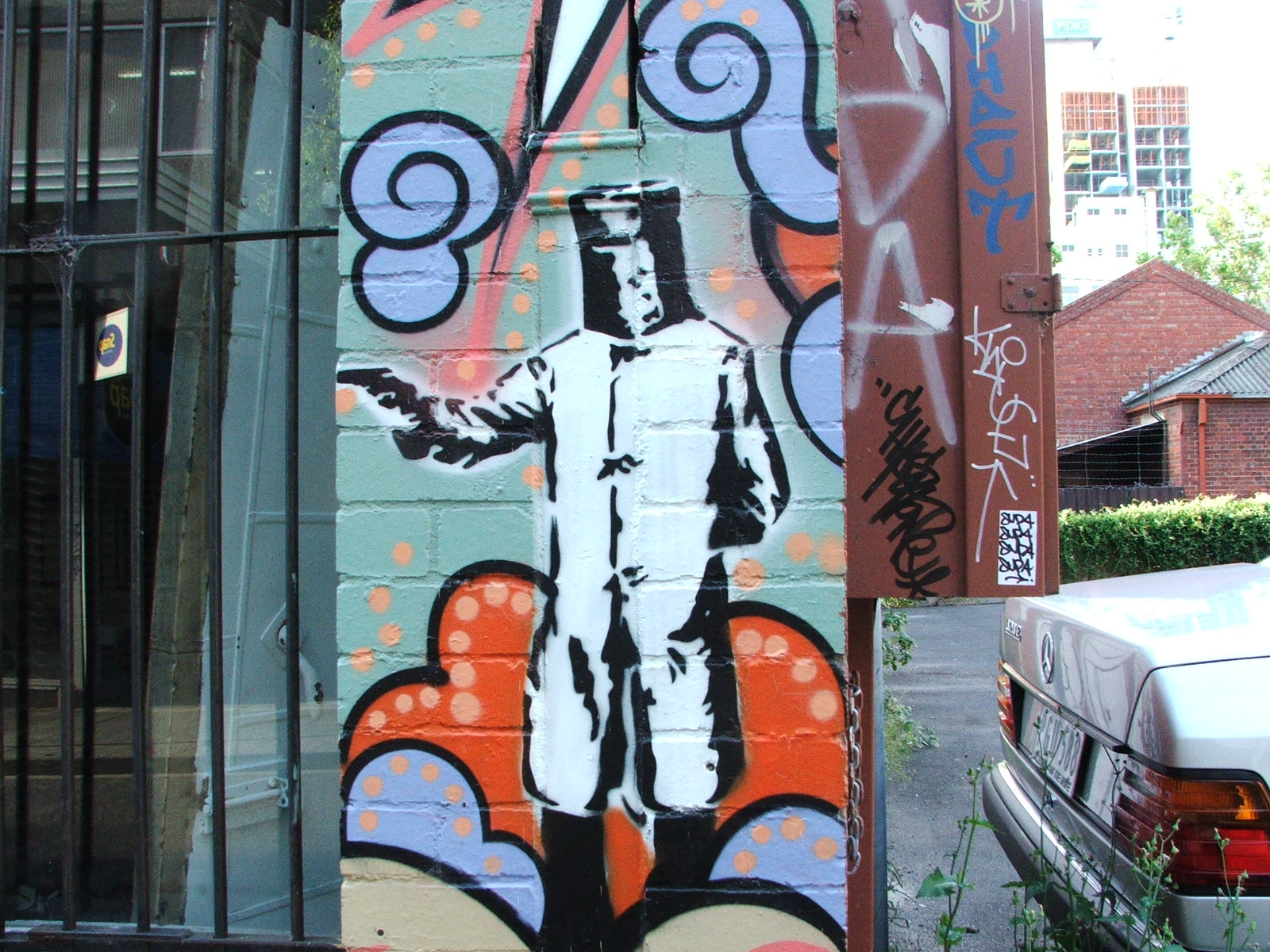 A stencil of Ned Kelly, illustrating his prominence in popular culture. Taken by the uploader in Melbourne, 2005.